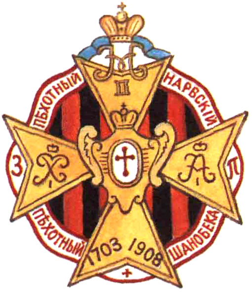 Badge of Narvsky 3-d Regiment